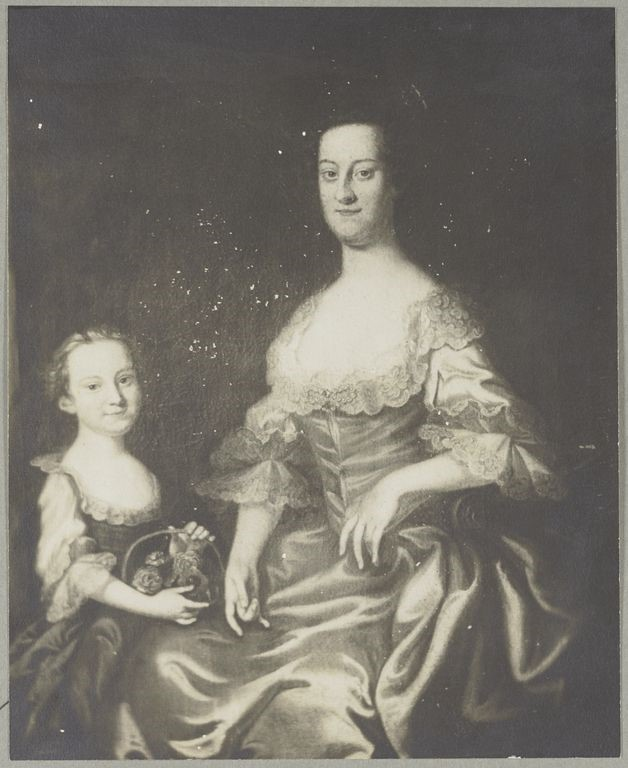 Artist John Wollaston, c. 1710 - c. 1767 Sitter Rebecca Plater Tayloe, 1731 - 1787 Mary Tayloe, 1750 - 1850? Date c. 1750-1760 Type Painting Medium Oil on canvas Dimensions 125.7cm x 100.3cm (49 1/2" x 39 1/2"), Sight